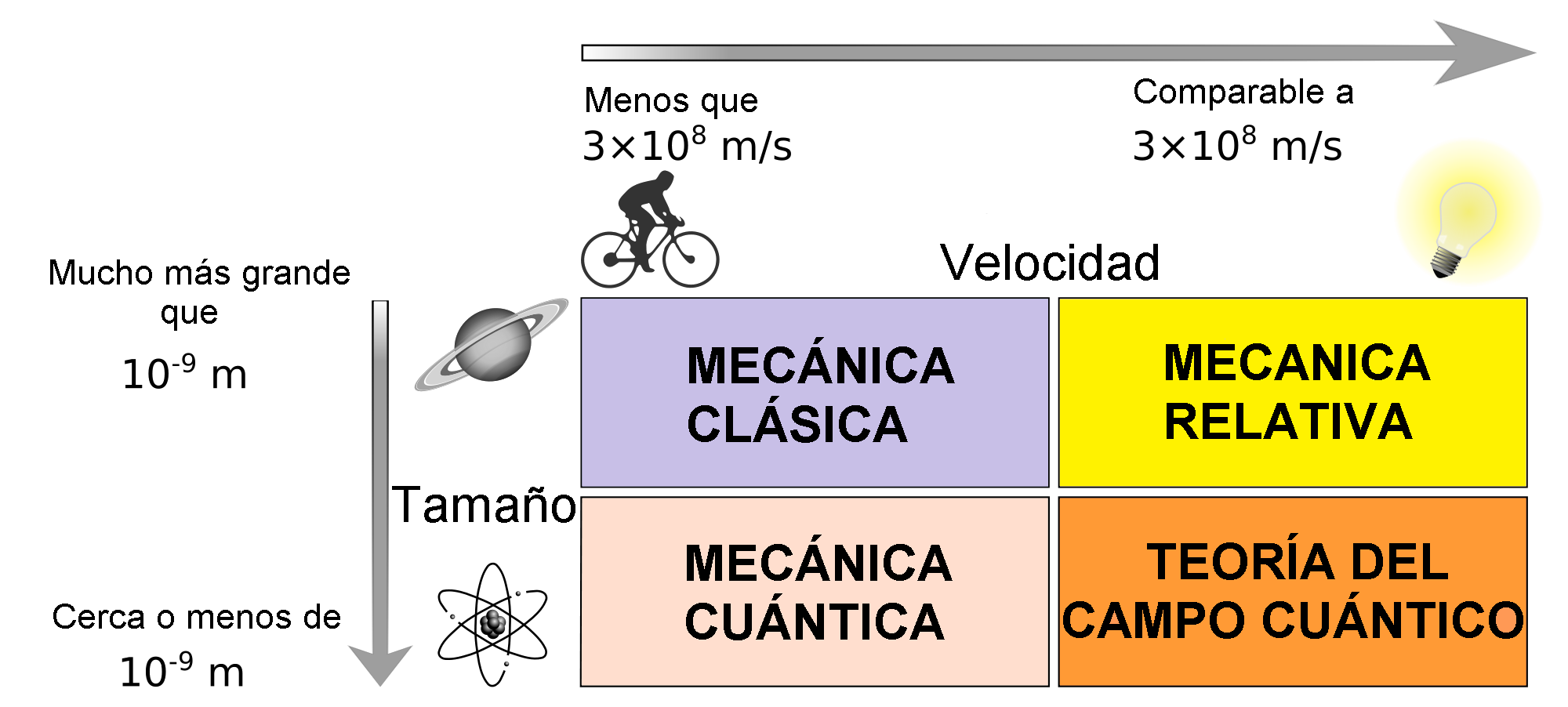 The basic domains of physics